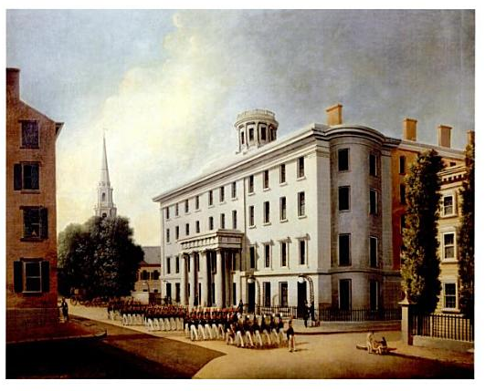 Art work by James Bennett of Tremont House (on Tremont St., near School St.), Boston, ca.1830s